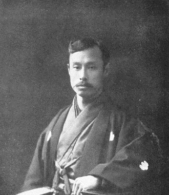 Otomaru Ashikaga